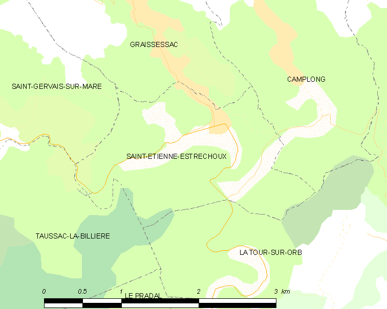 Map commune FR insee code 34252.png - Saint-Étienne-Estréchoux